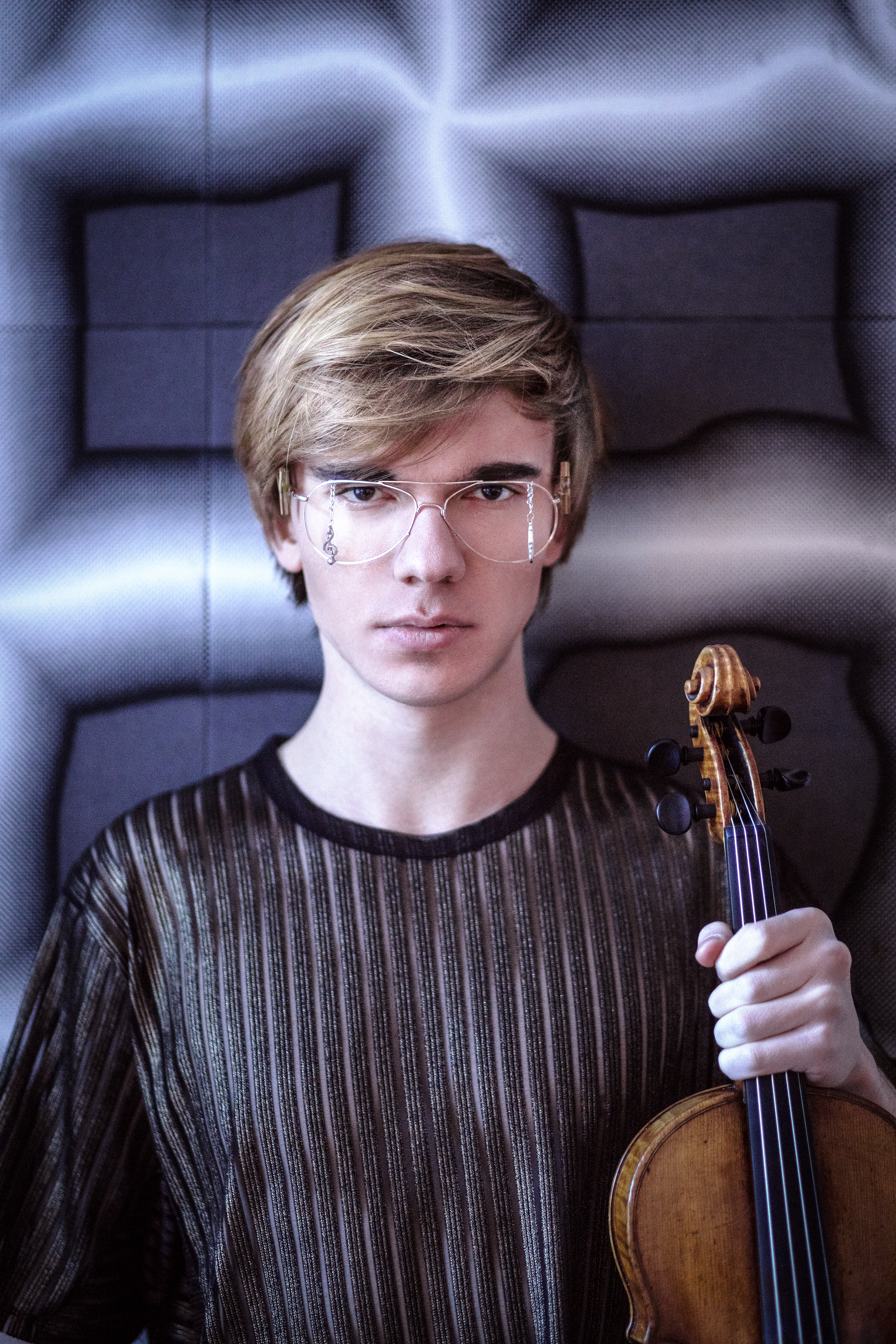 Yury Revich, Russian classical violinist